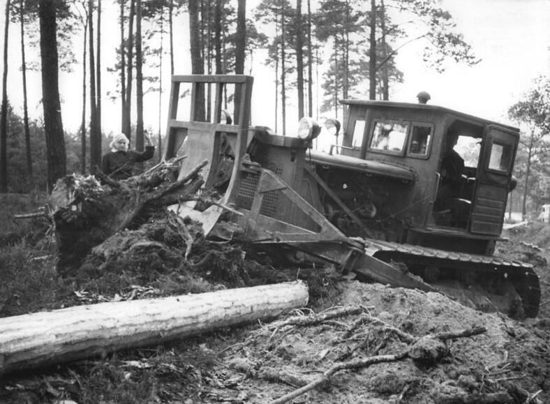 GDR 1955, construction works for the lignite-combine "Scharze Pumpe". "..." original caption reads: "A soviet root-extraction-machine of „VEB Strassenbau Potsdam“ is working on the bicycle lane Spremberg-Hoyerswerda"